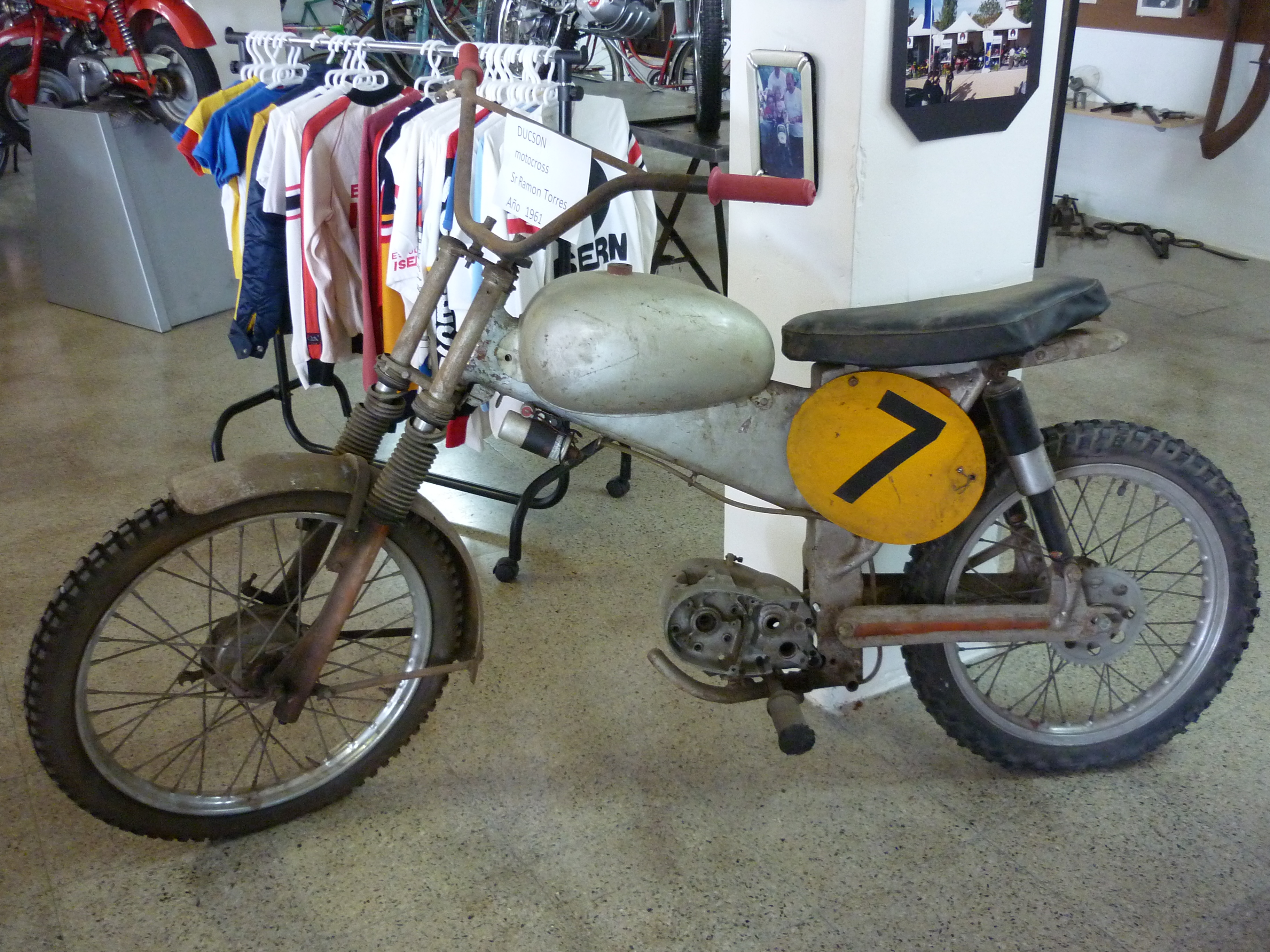 Ducson 75cc riden by Ramon Torras in some motocross races in 1961.Isern Motorcycle Museum, Mollet del Vallès (Catalonia).